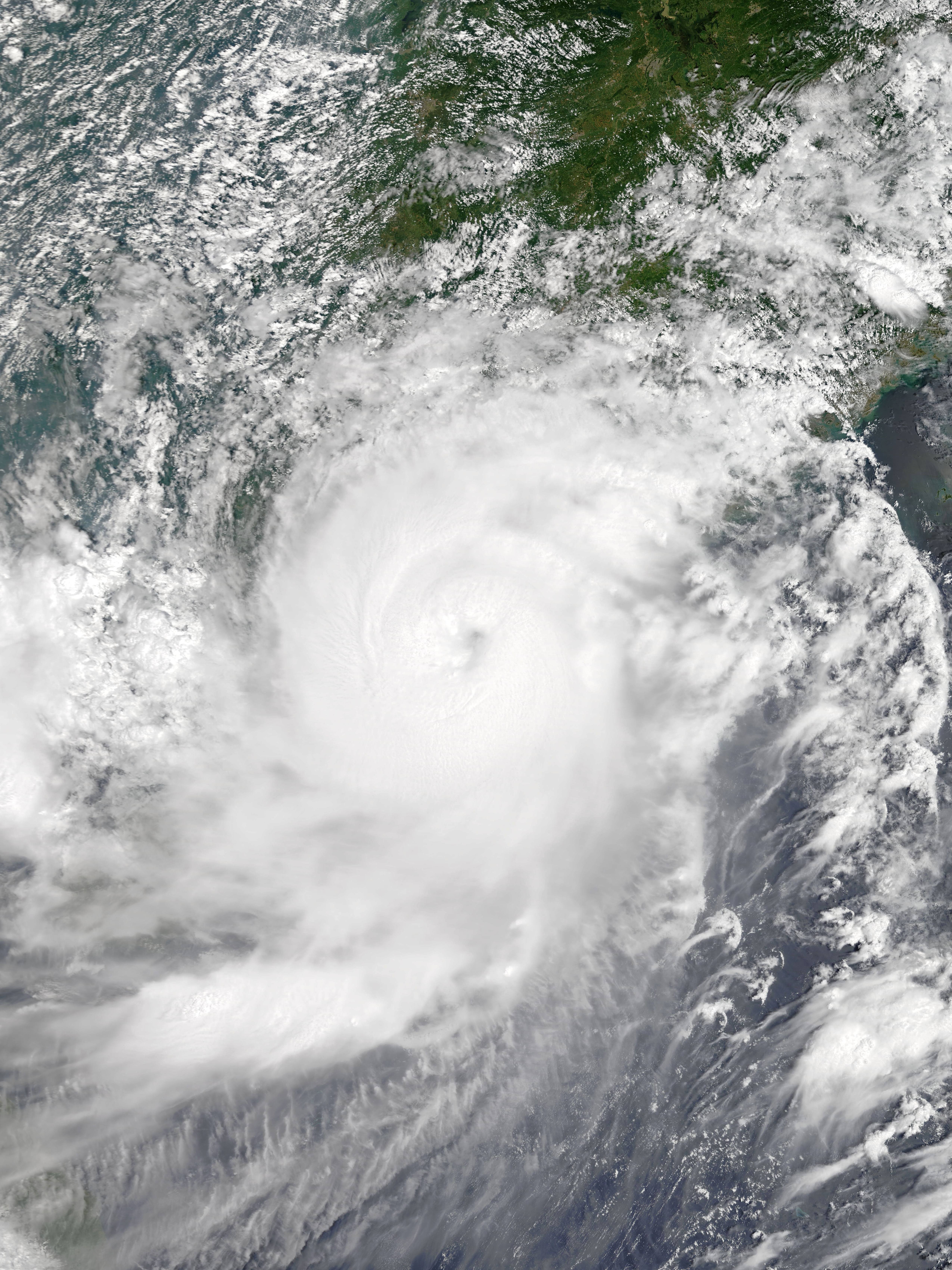 Typhoon Hato at peak intensity near Macau on August 23, 2017.